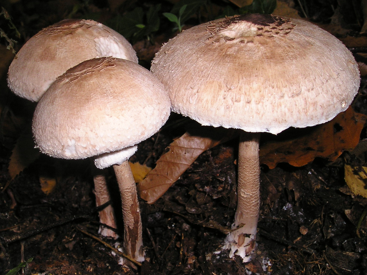 Macrolepiota procera (Parasol mushroom) in a wood near Paris.